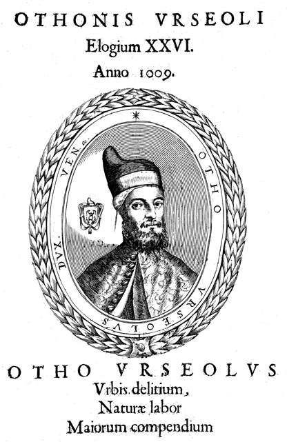 Otto Orseolo (Italian: Ottone Orseolo, also Urseolo; c. 992−1032) was the Doge of Venice from 1008 to 1026.